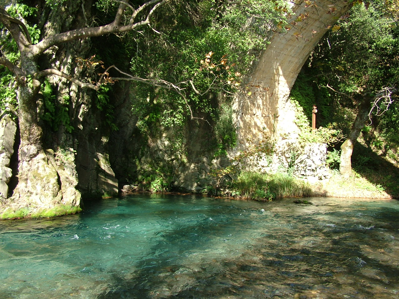 Lousios river in September 2010